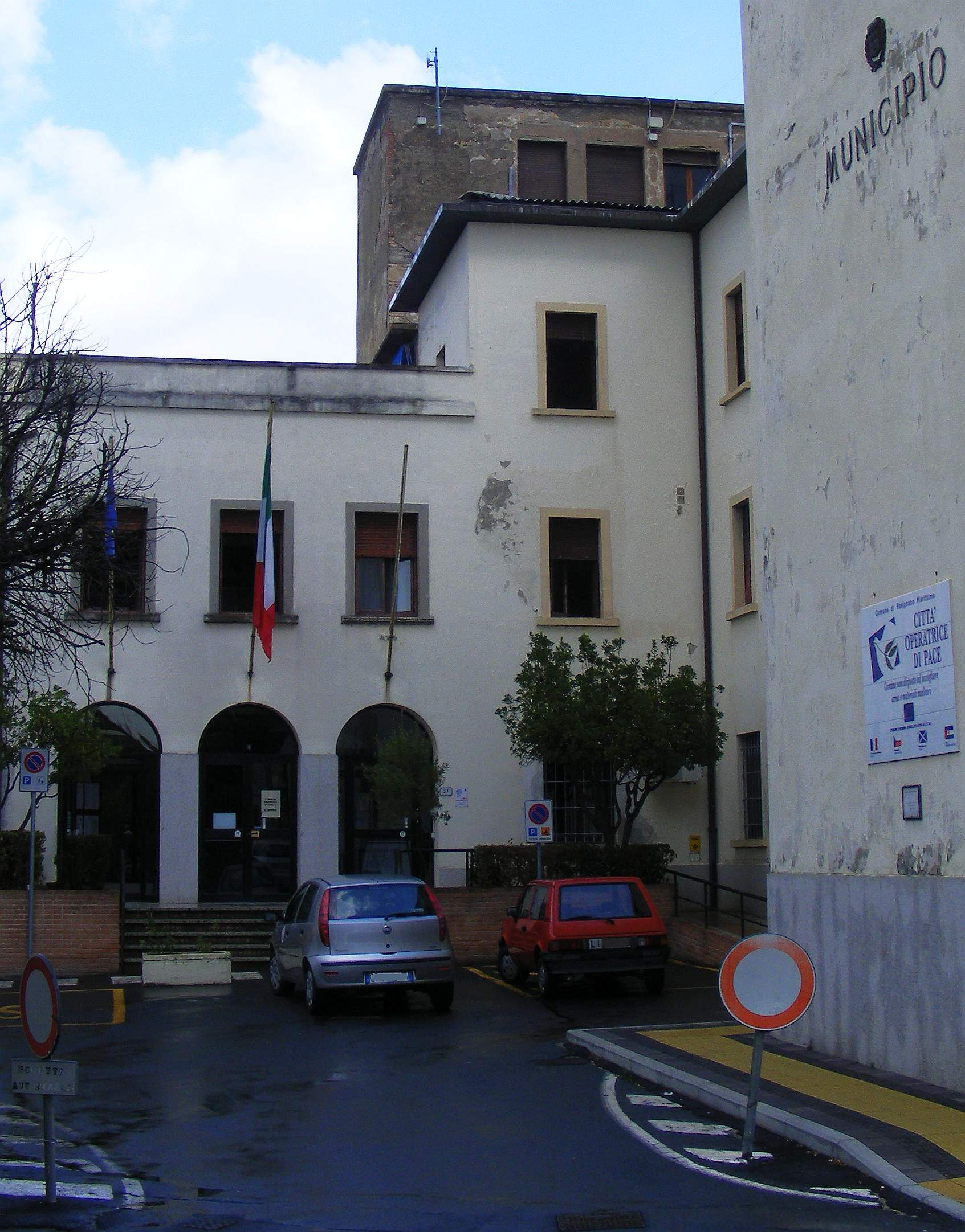 Rosignano Marittimo (LI, Italy): town hall